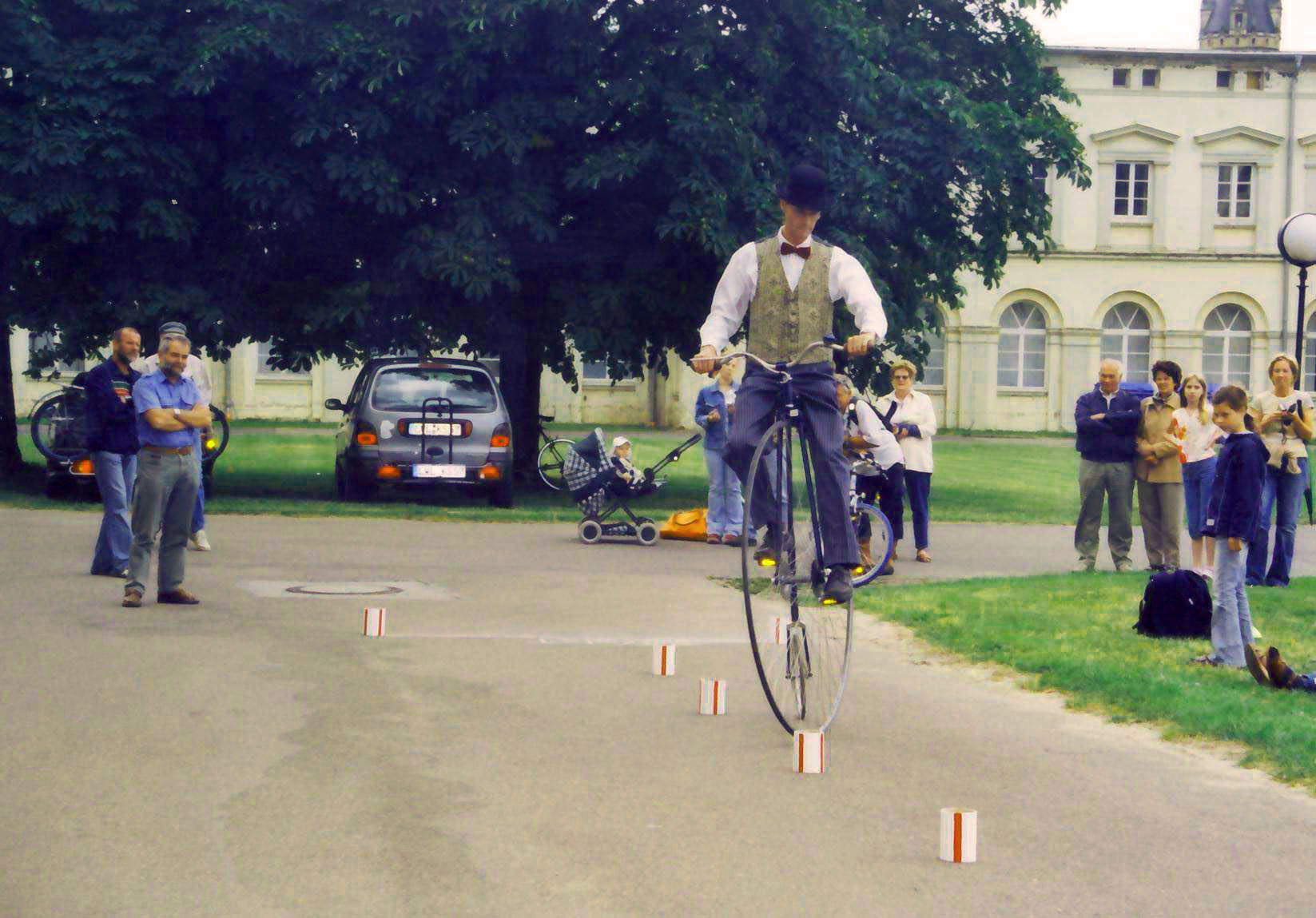 Racing with old bicycles